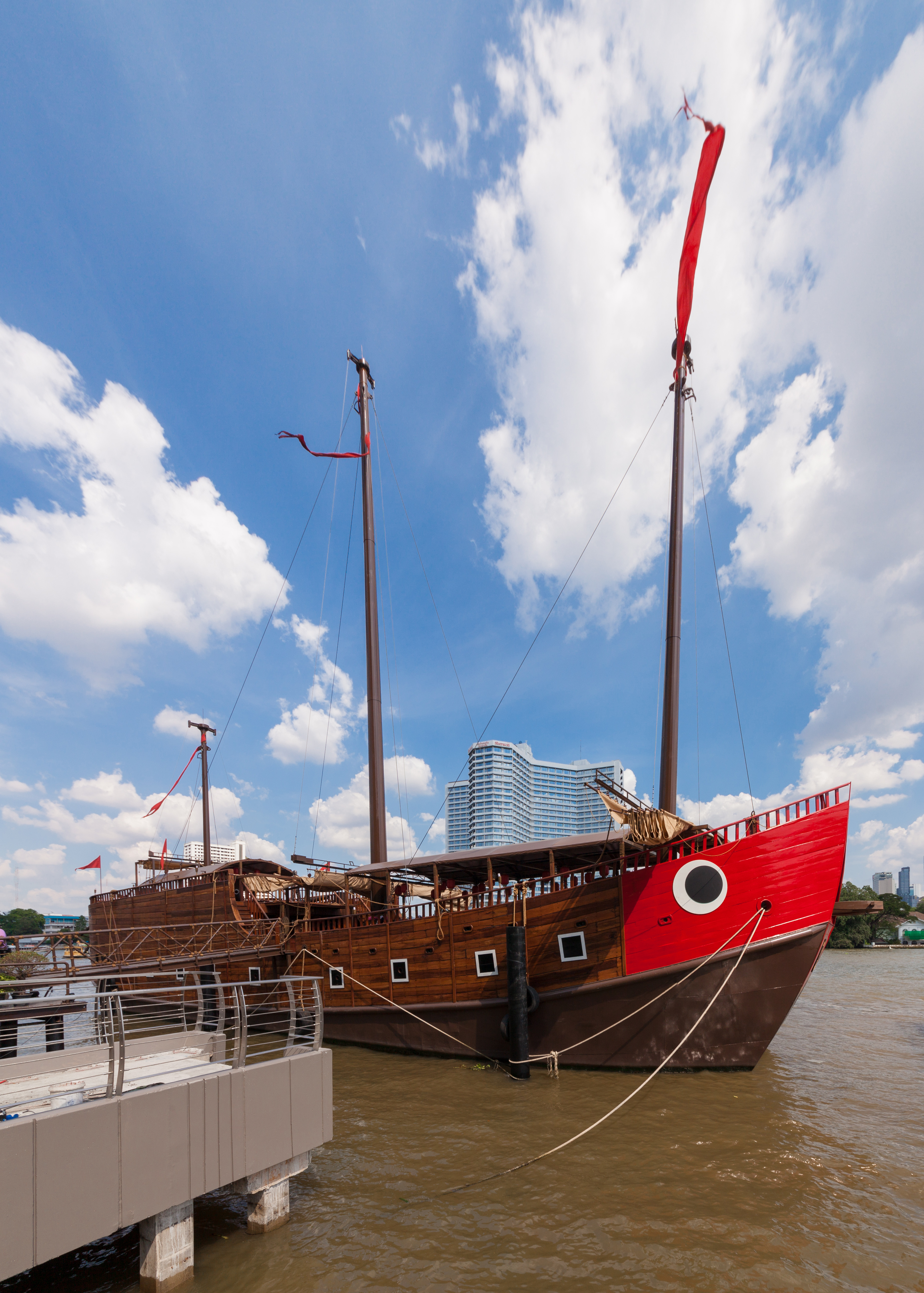 The "Sri Maha Samut" junk (เรือสำเภาศรีมหาสมุทร) at Iconsiam shopping mall, Bangkok.